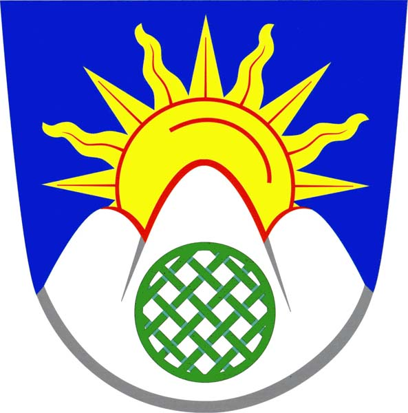 Municipal coat of arms of Kamenná village, Šumperk District, Czech Republic.